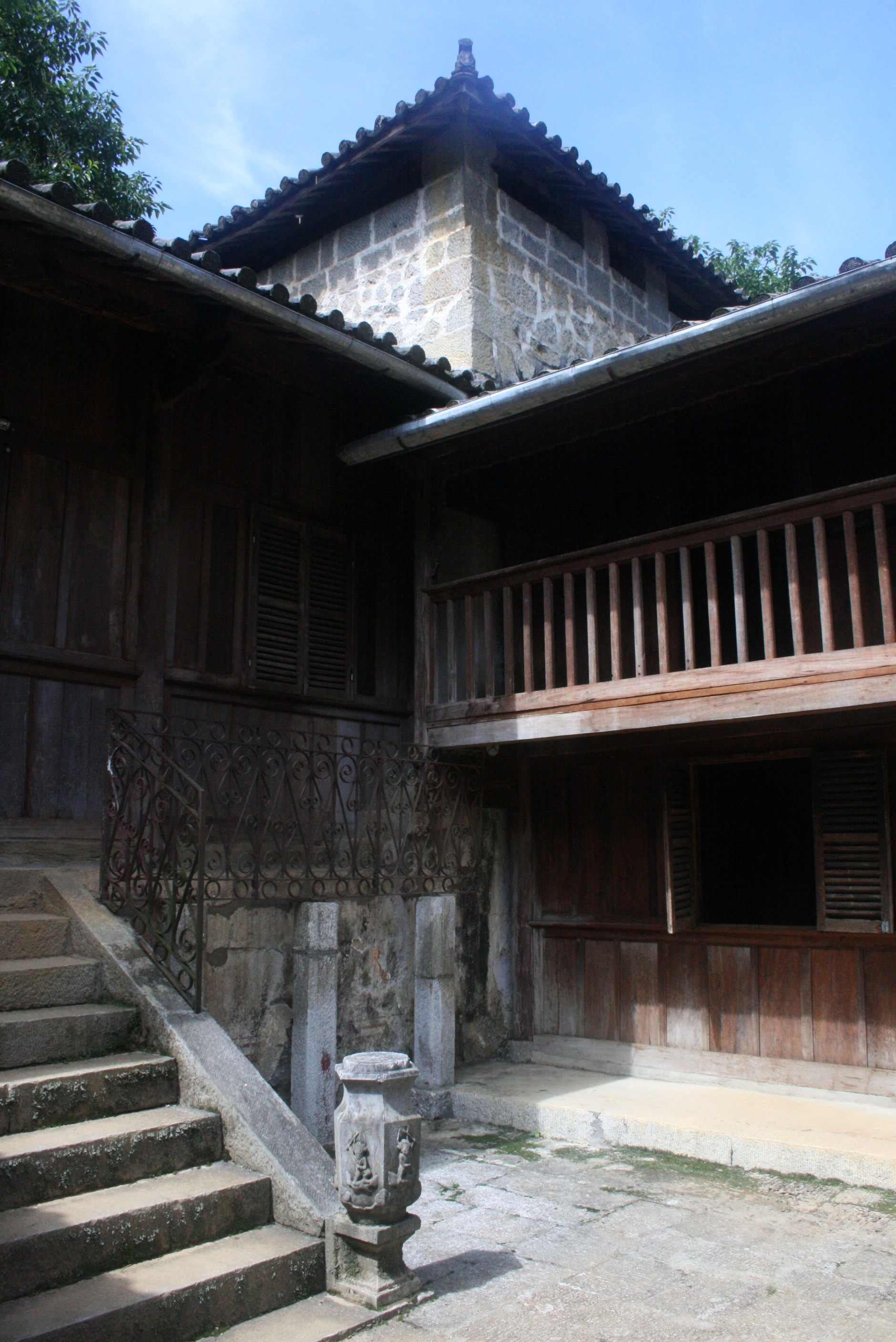 interior of the Hmong King's house, with one of the defense towers in Sa Phin, Dong Van district, Ha Giang province, Vietnam